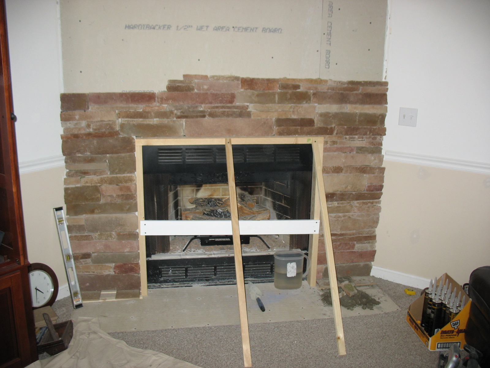 Installation of stone veneer